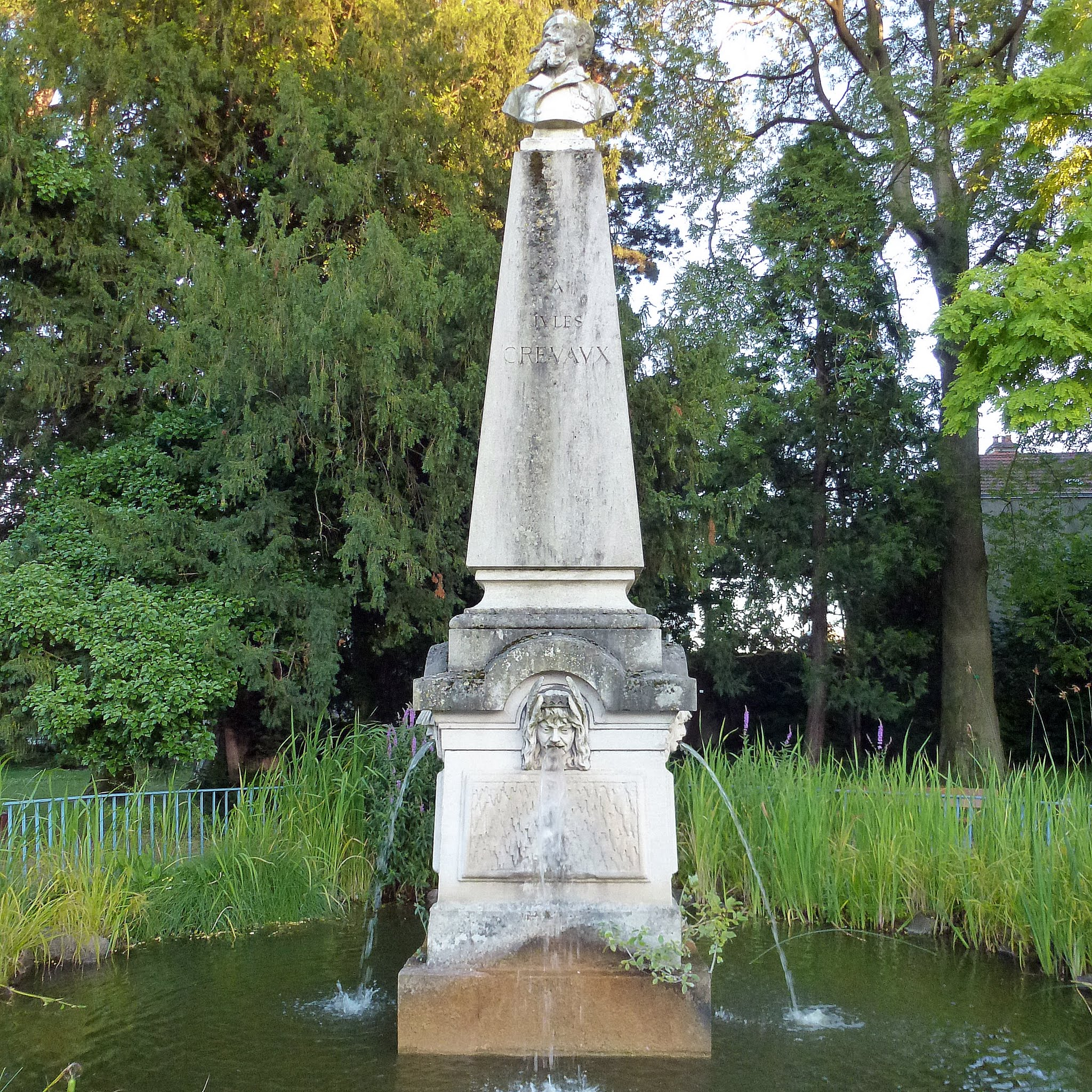 The Jardin Dominique Alexandre Godron, 36 Rue Sainte-Catherine, Nancy, Франция